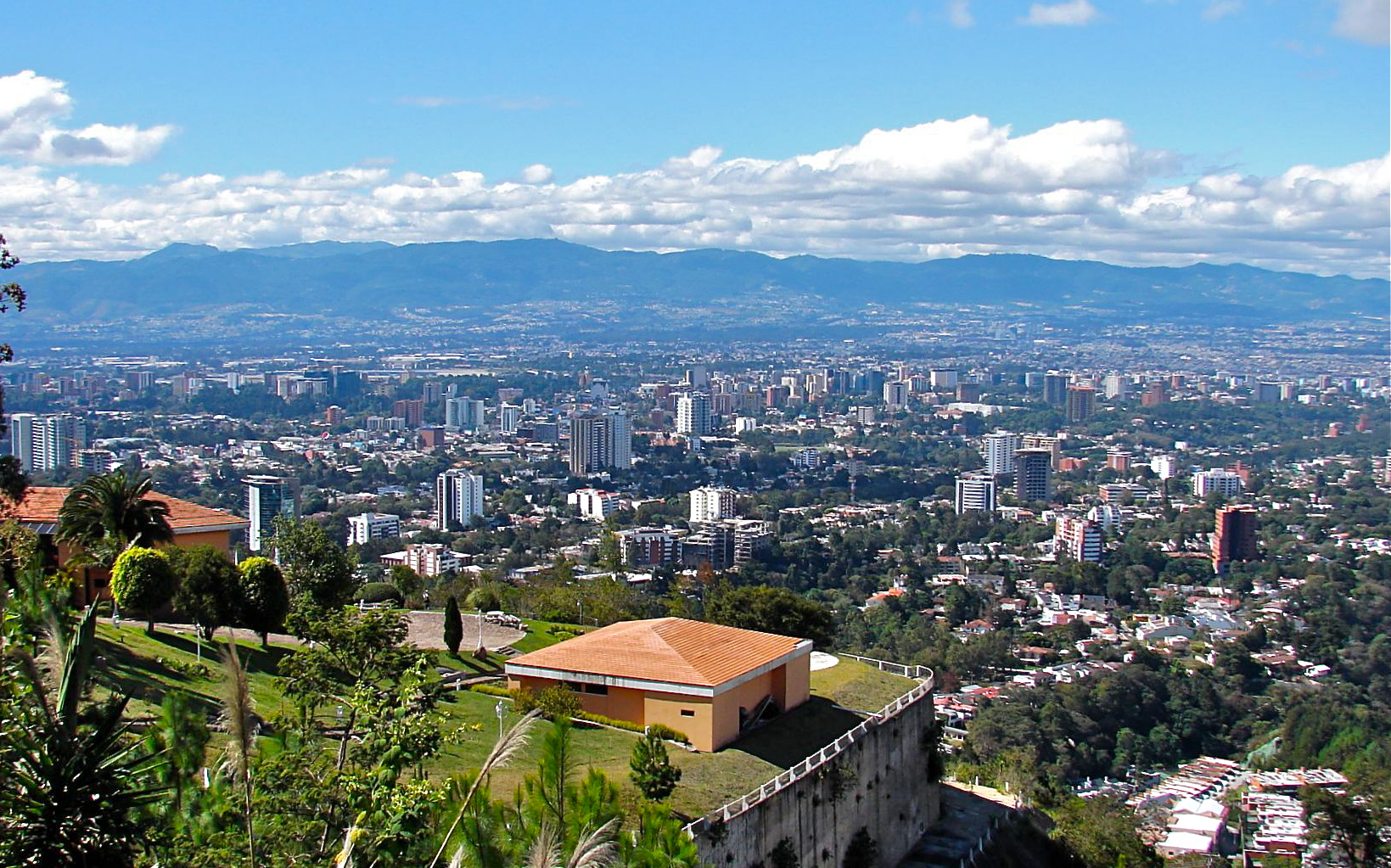 Guatemala City from El Mirador